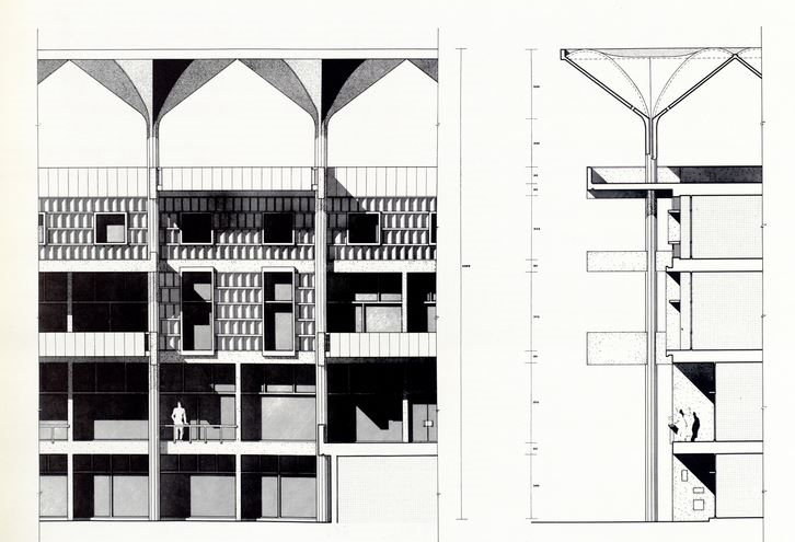 Havana Plan Piloto. Palacio de las palmas. Havana, Cuba. 1959